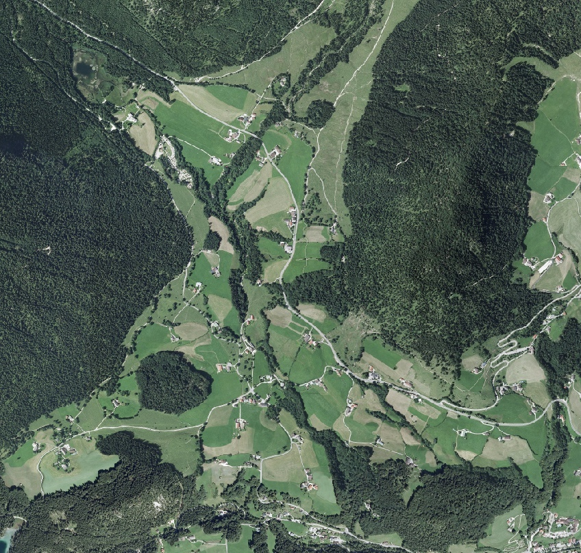 Orthophoto of Taubensee area, Ramsau bei Berchtesgaden, Upper Bavaria, 4 meter ground resolution